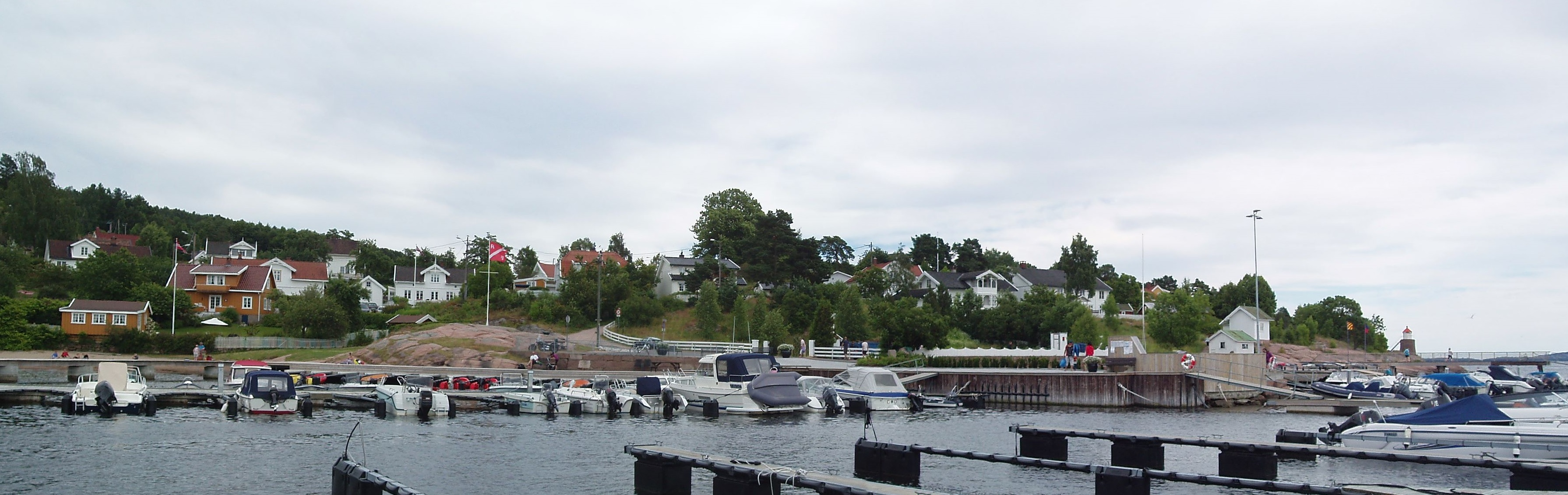 The village of Rødtangen in Hurum, South Norway